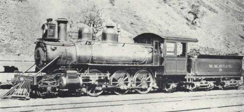 NZR N class seen before NZ Rail days as Number 9 of the Wellington and Manawatu Railway, at Paekakariki